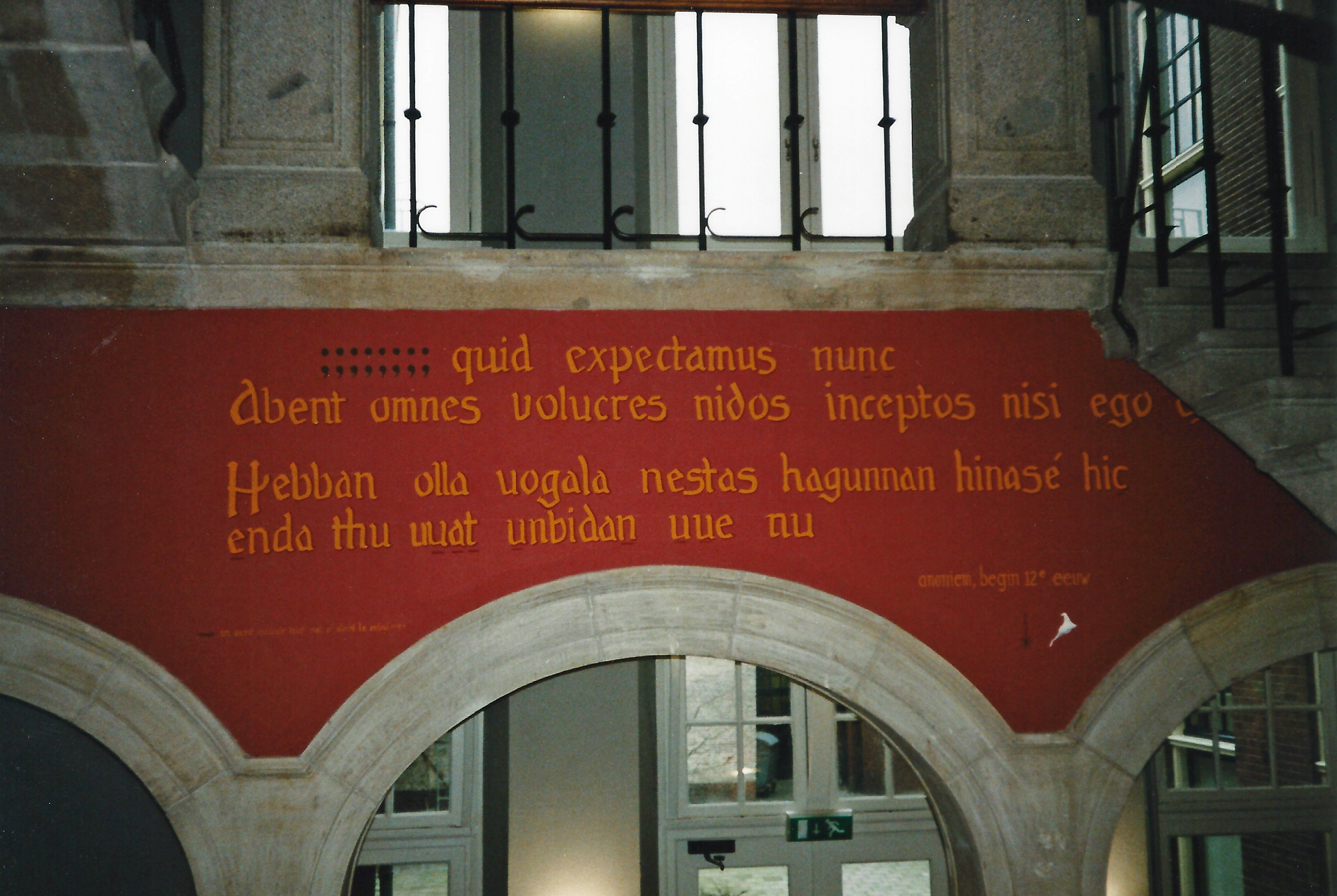 Wallpoem in de city of Leiden in the Netherlands.